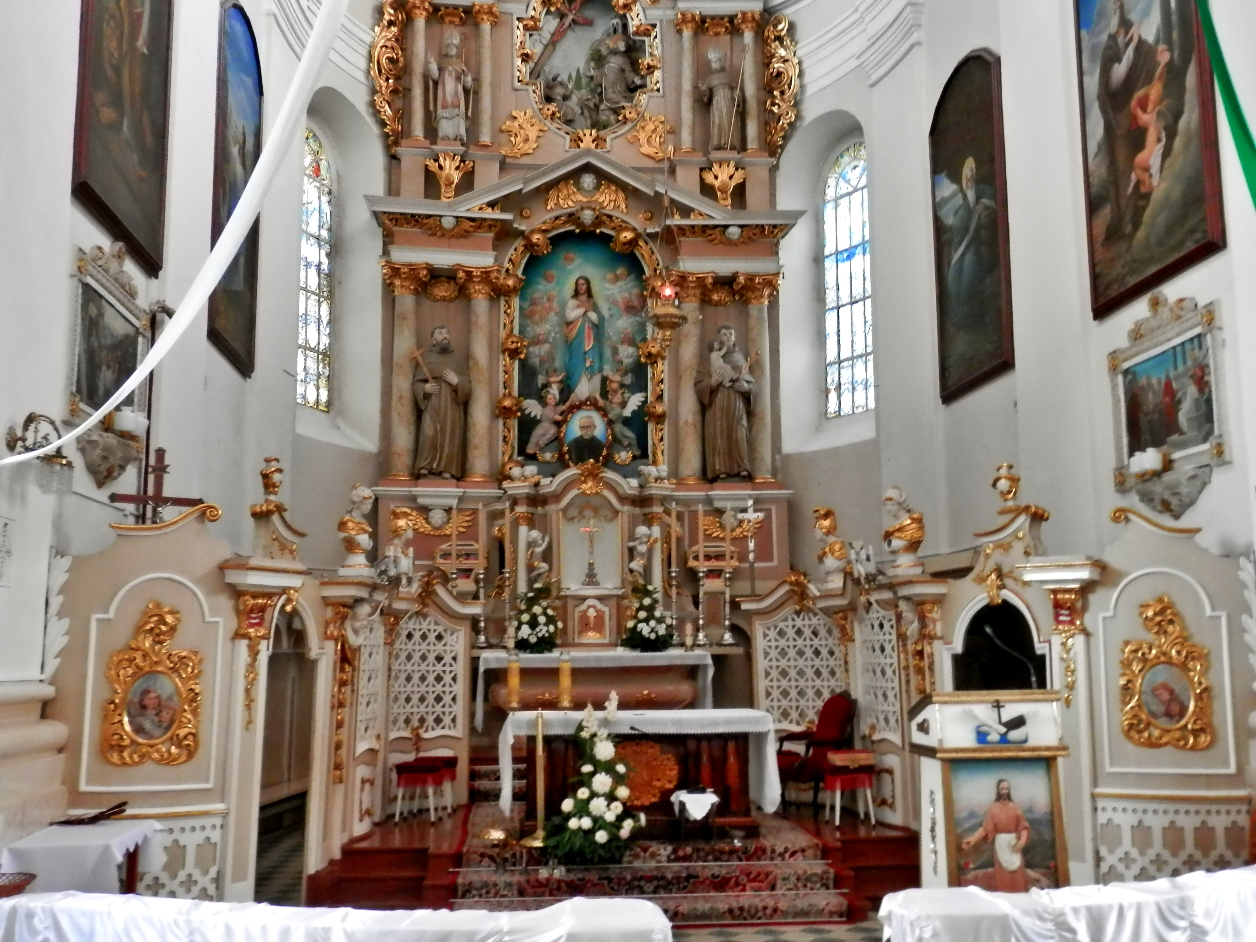 Franciscan church of St. Mary of the Angels in Hrodna